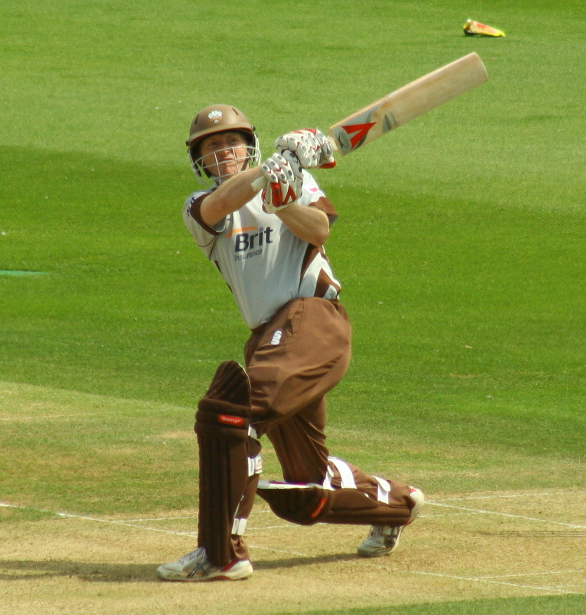 Ali Brown, England and Surrey CCC Cricketer. Uploaded per request at Wikipedia:Images for upload.